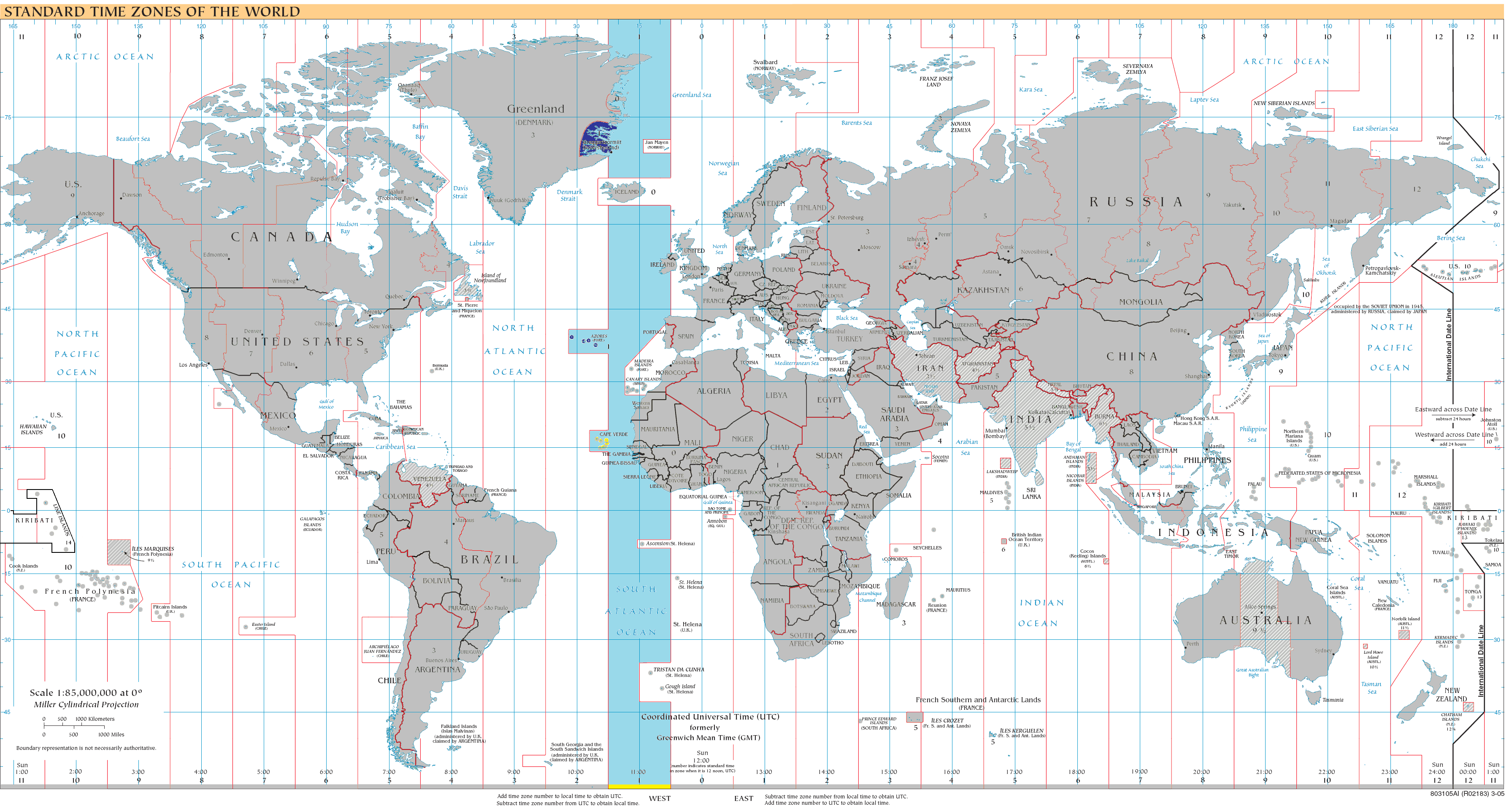 World map of time zones as of 2008, on the Miller Cylindrical Projection and with highlighted UTC-1 zone.